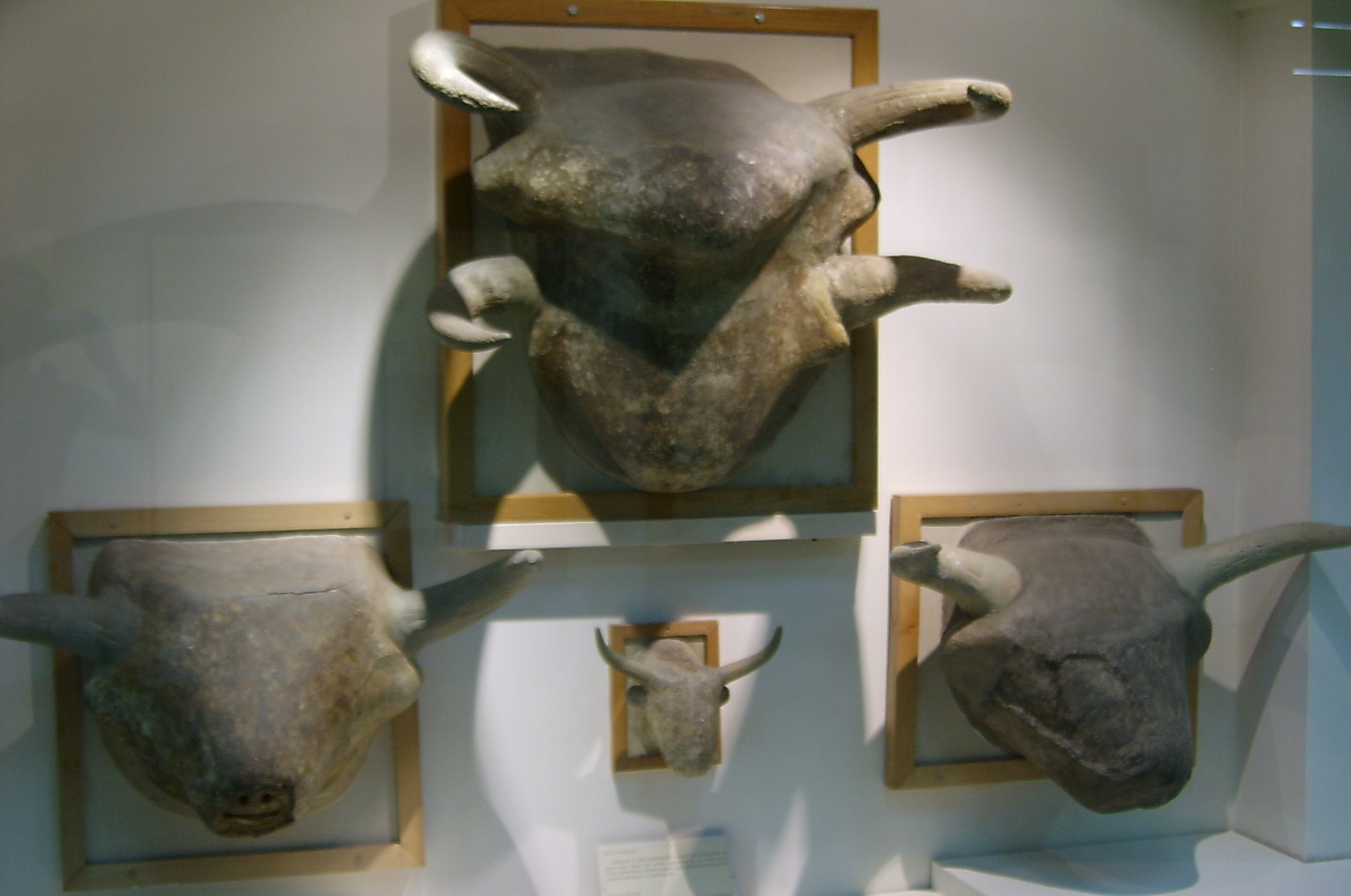 Bull heads from Catal Hüyük in Angora Museum